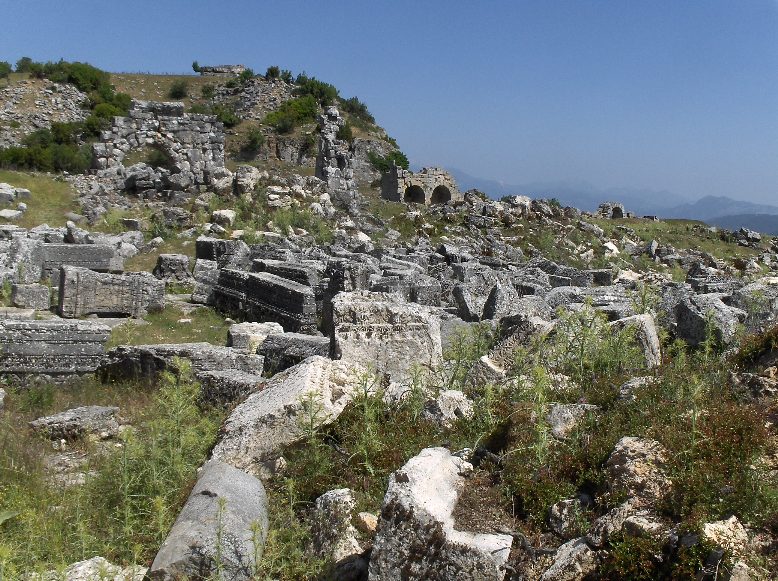 View across the central ruins at the ancient city (antik kent) of Kremna.